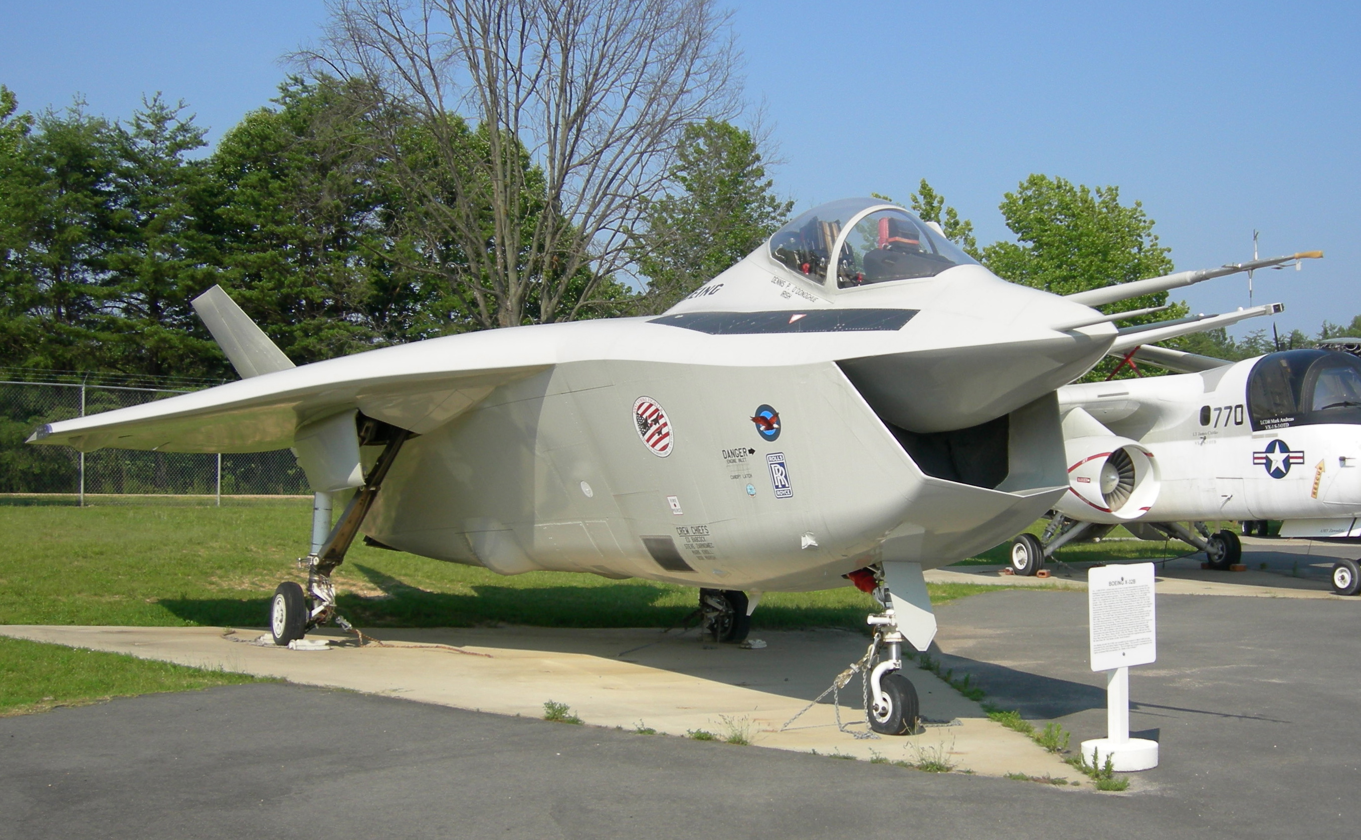 Boeing X-32B on display at the Patuxent River Naval Air Museum. This lost the Joint Strike Fighter competition to Lockheed Martin's X-35 (now the F-35 Lightning II), with the testing conducted at the nearby Naval Air Station Patuxent River. A Lockheed S-3B Viking is in the background.